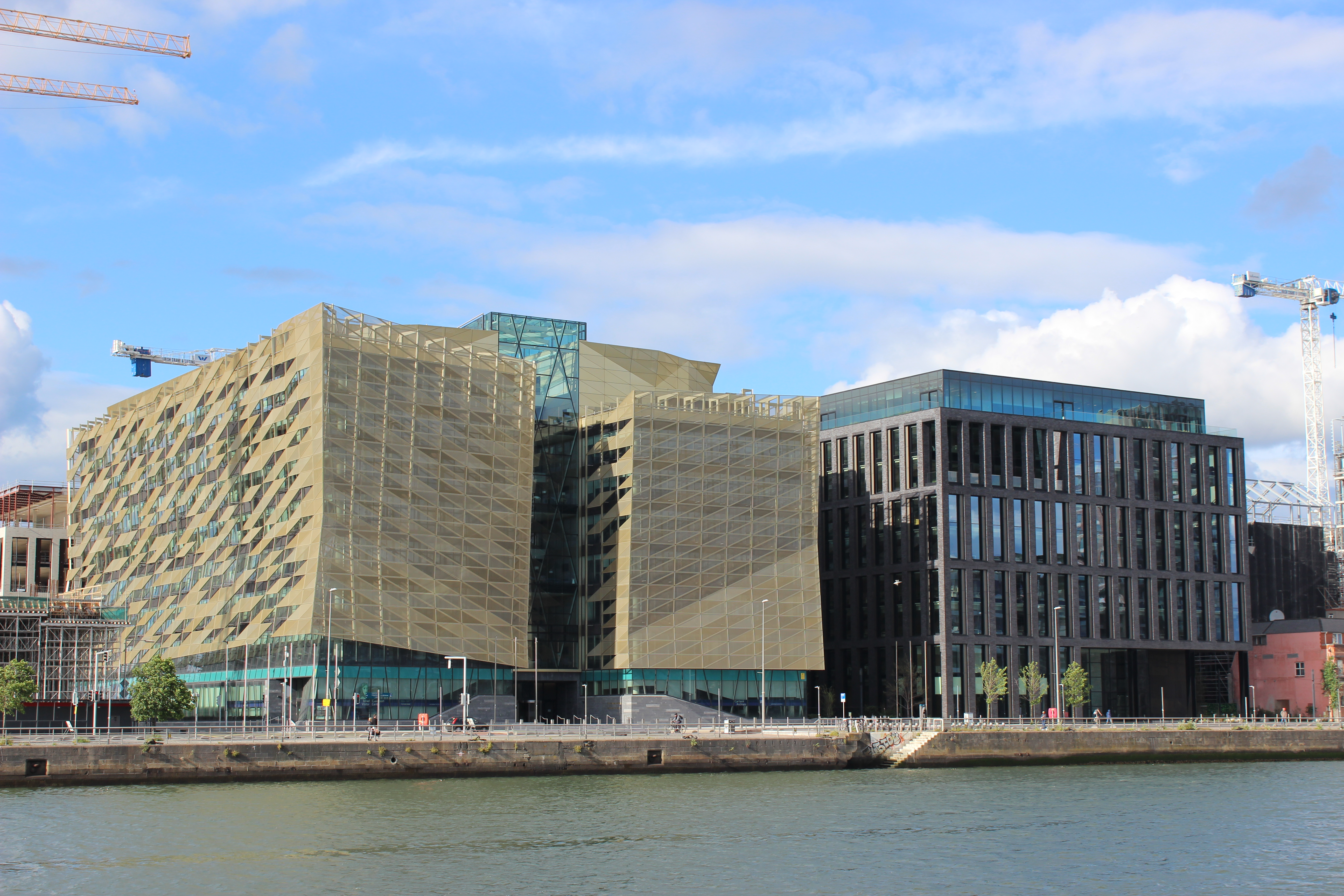 The new headquarters of the Central Bank of Ireland, North Wall Quay, Dublin